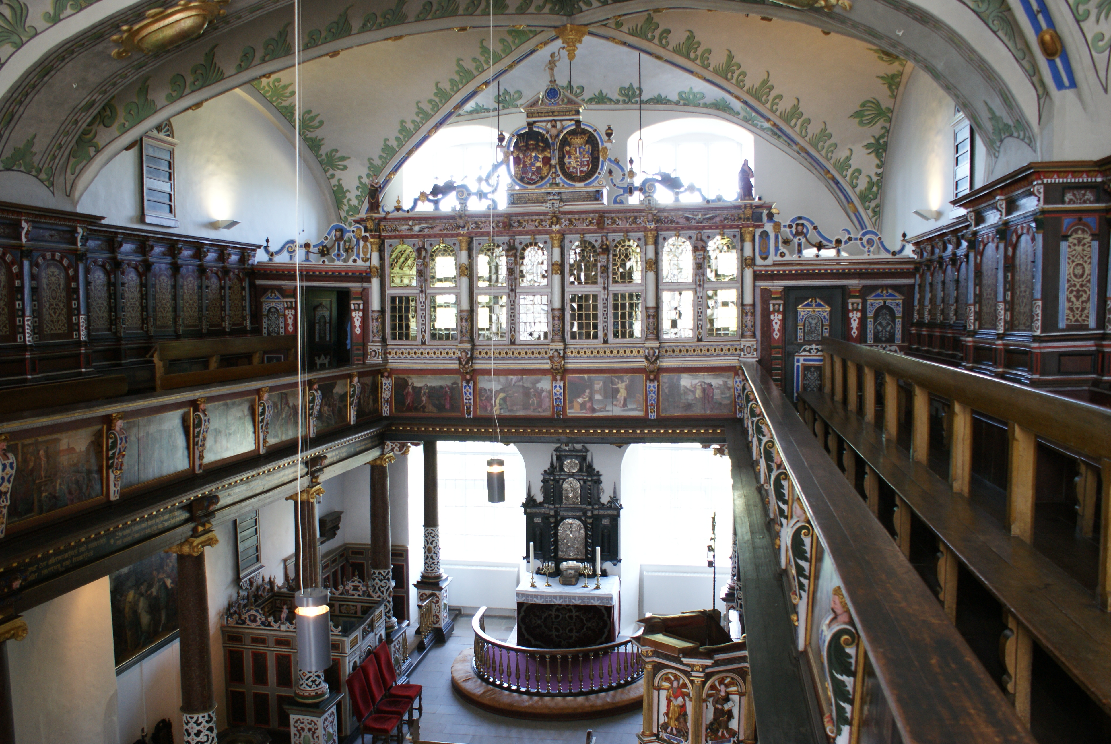 Thr Chappel at Gottorf Castle